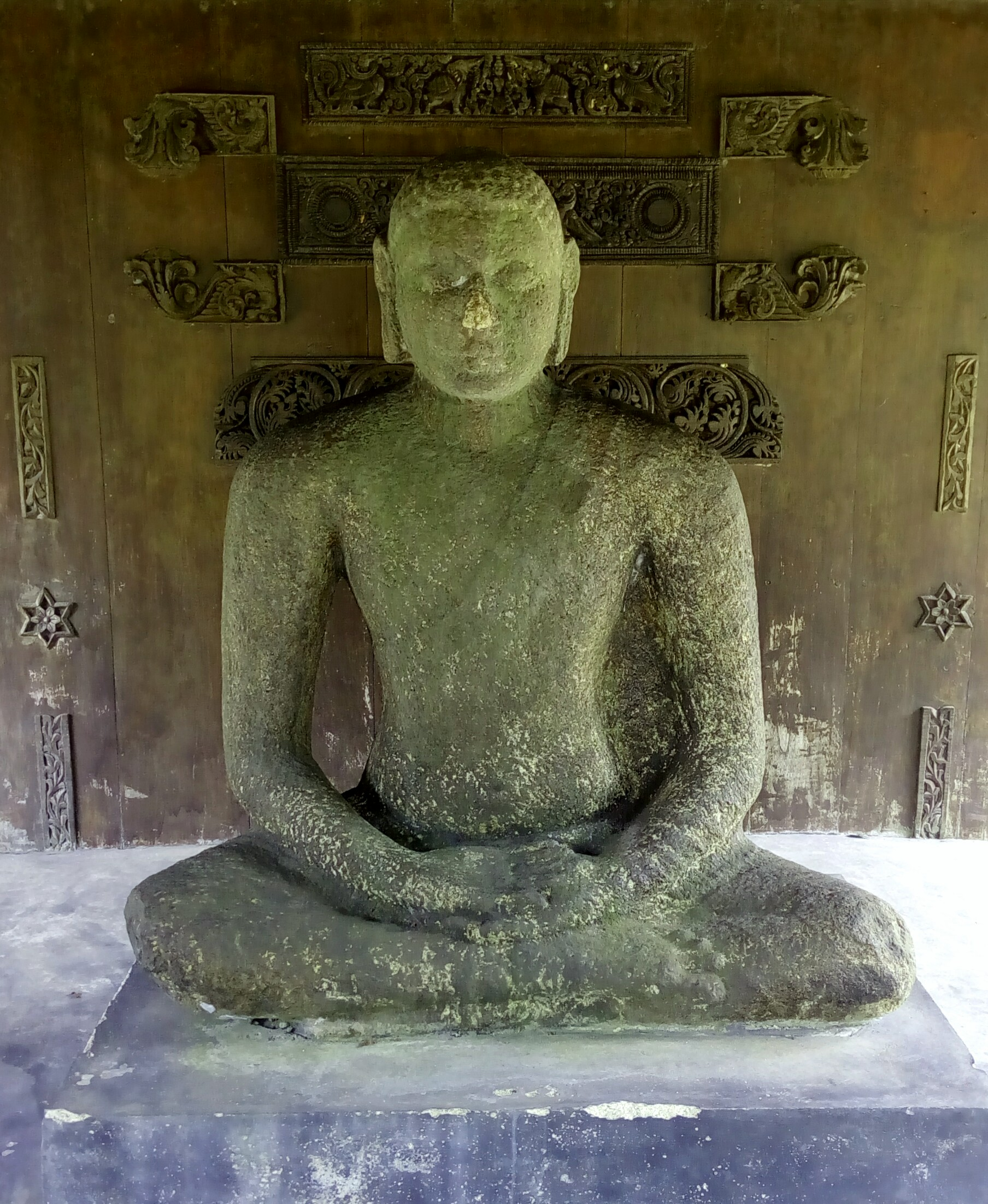 Tenth Centuary Buddha Krishnapuram Palace